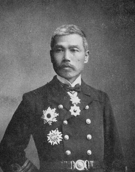 Jiro Miyahara